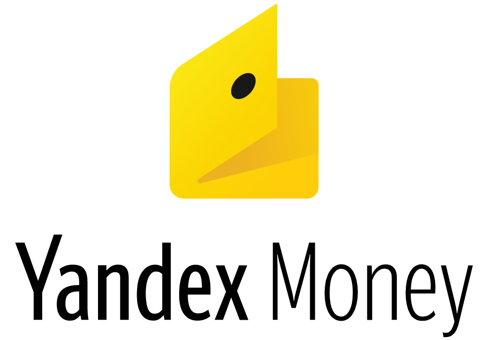 Yandex.Money